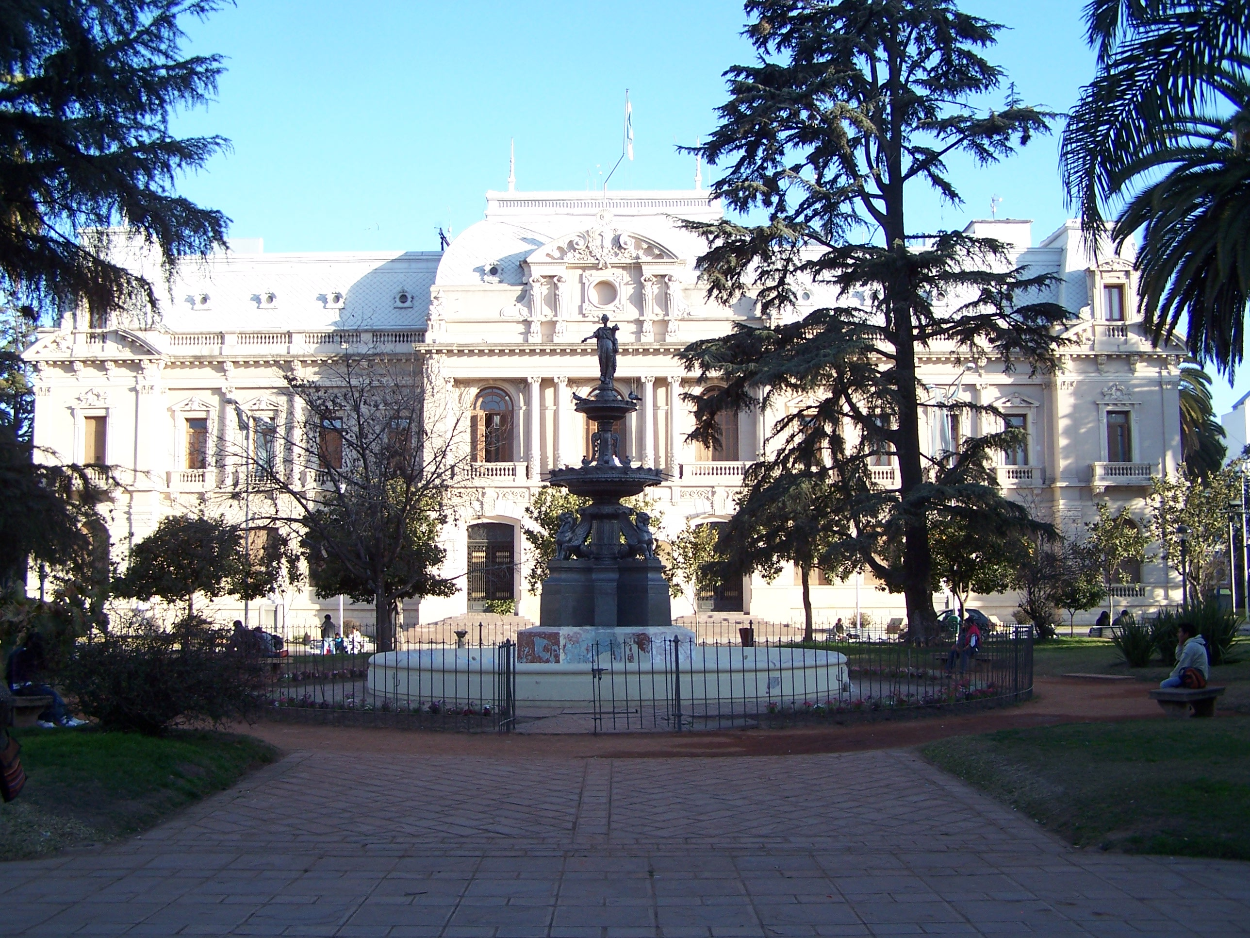 Jujuy Governor's Office Building